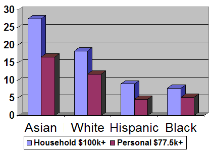 I created the graph myself using 2006 US Census Bureau data taken from here (household income data) and here (personal income data)